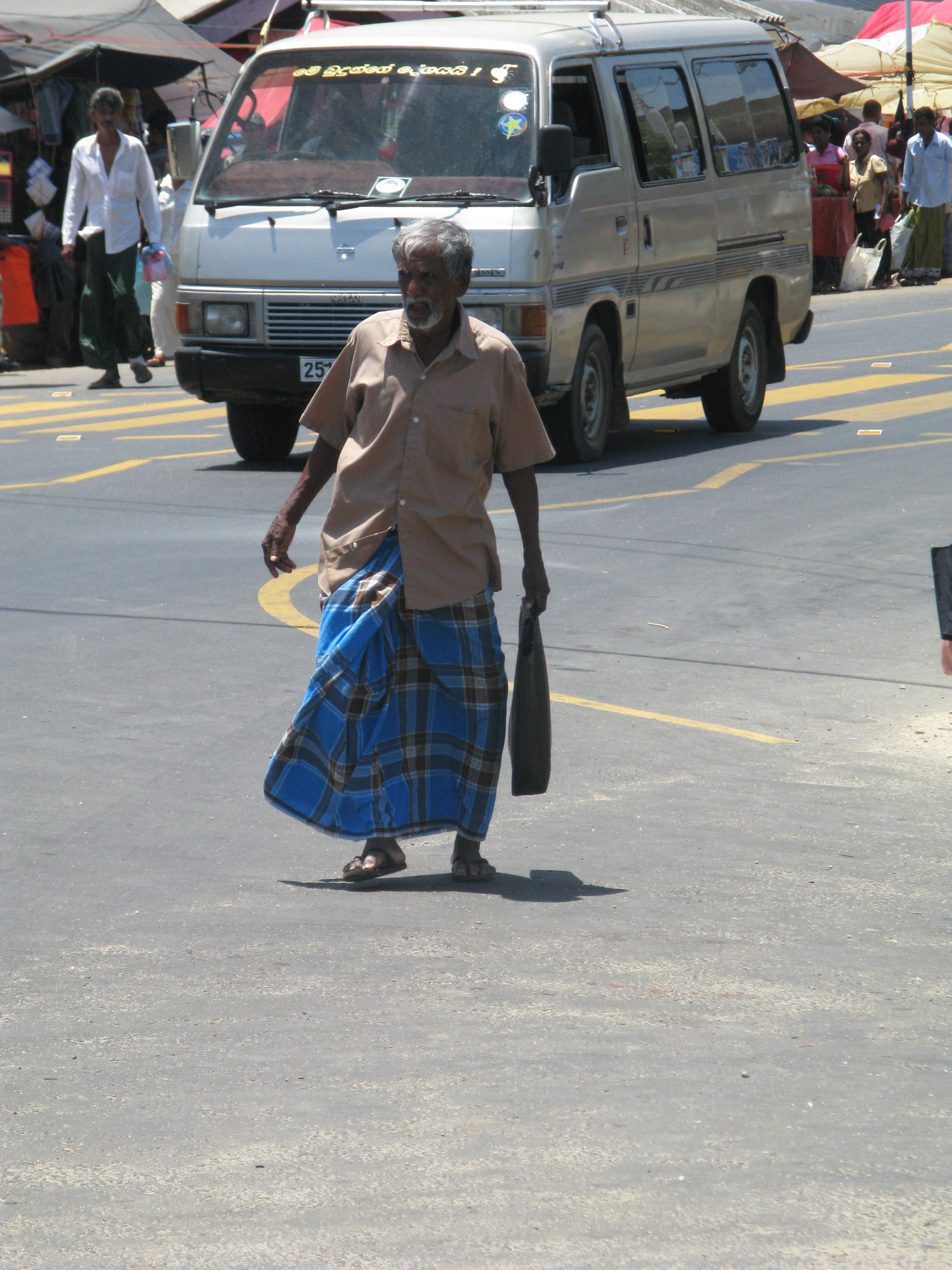 A Sri Lankan man wearing a sarong.